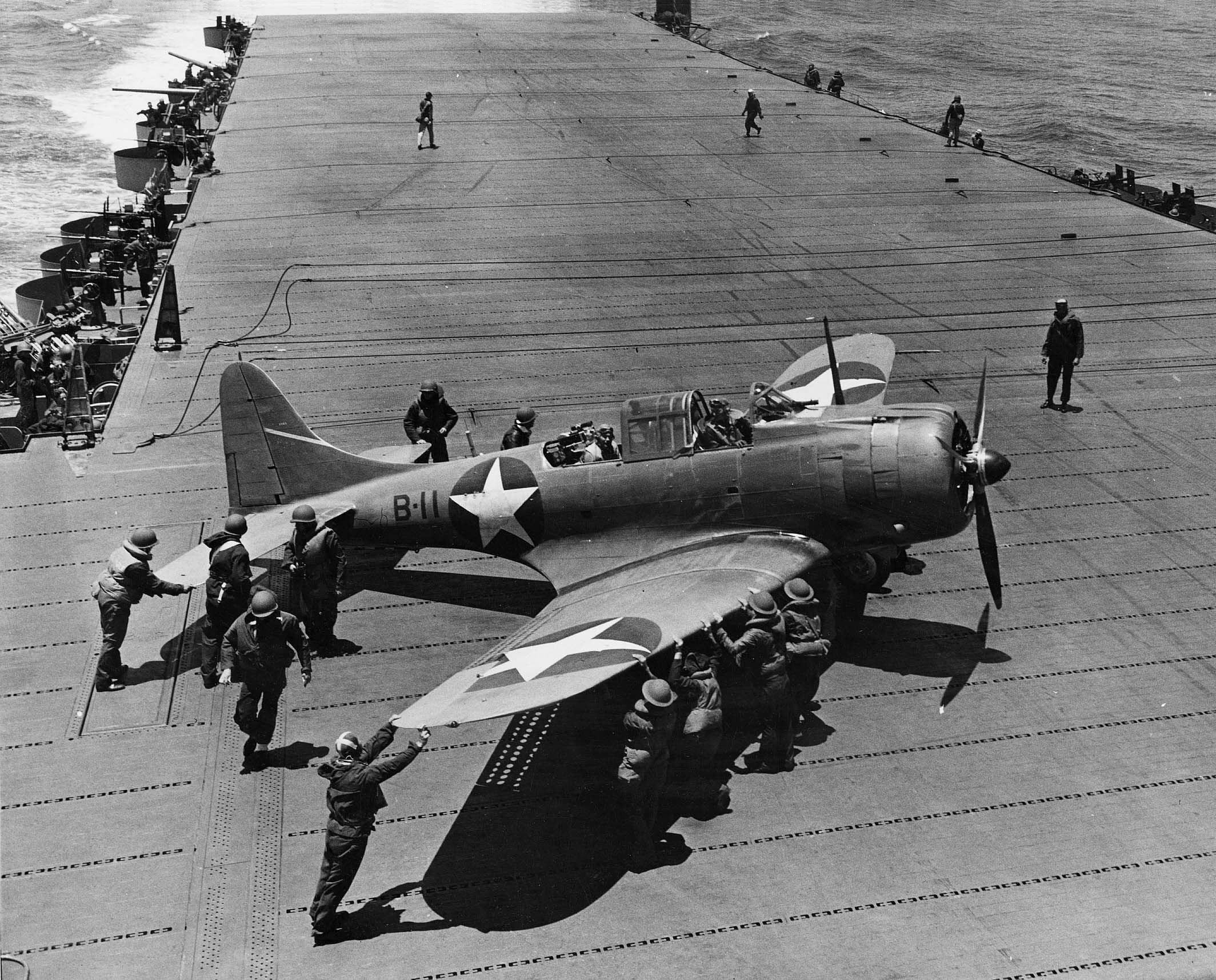 A U.S. Navy Douglas SBD-3 Dauntless of bombing squadron VB-8 on deck of the aircraft carrier USS Hornet (CV-8) during the Battle of Midway, 4 June 1942.